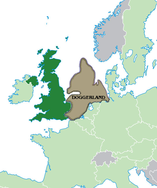 A map of Doggerland as it is believed to have looked ca. 10,000 BP, superimposed on Quizimodo's public domain map of the UK, EU and Europe.